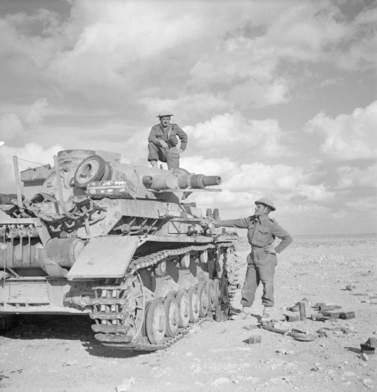 The British Army in North Africa 1941 New Zealand troops inspecting a knocked out German PzKpfw IV tank near Tobruk, 15 December 1941.